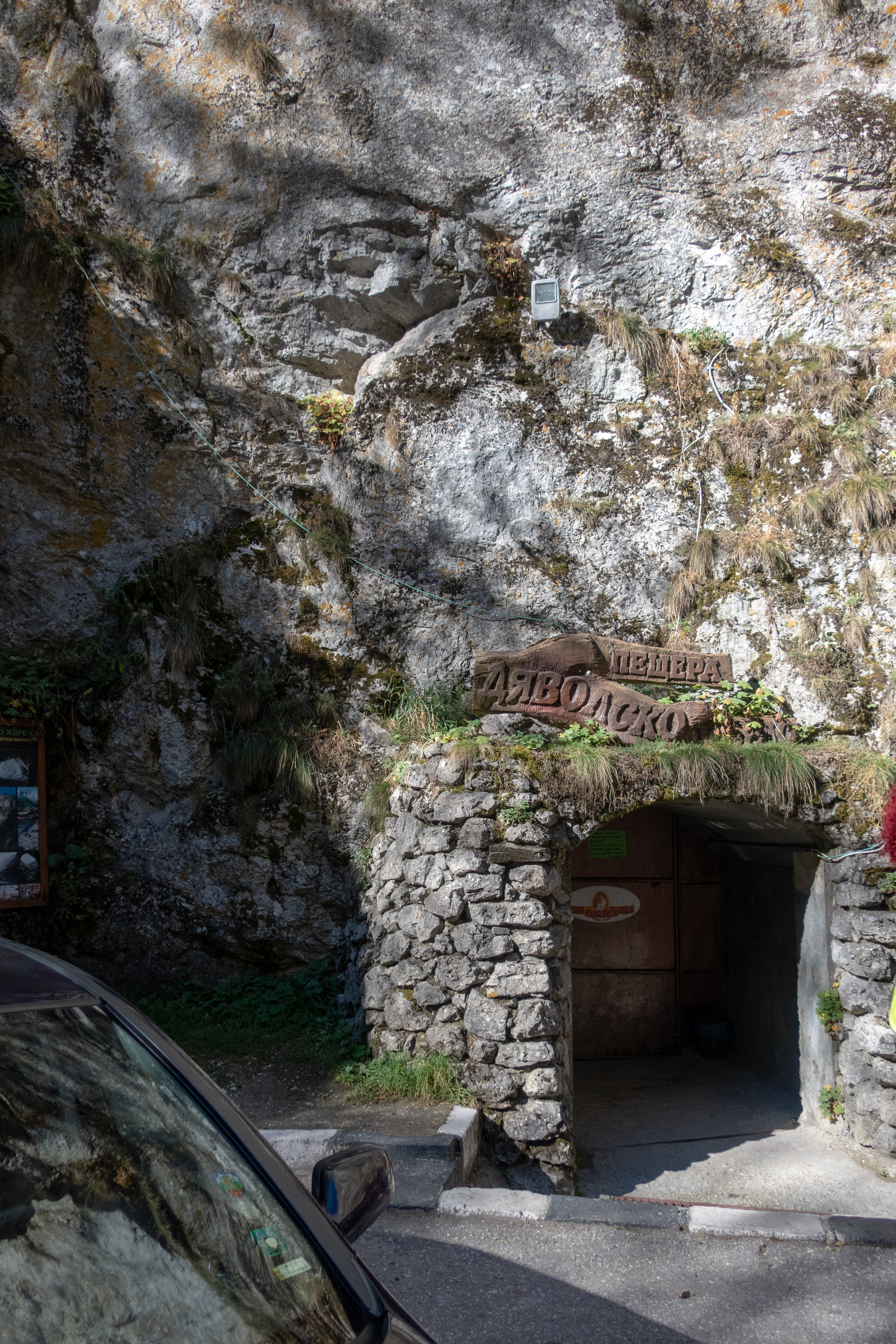 The Devil's Throat Cave, Bulgaria